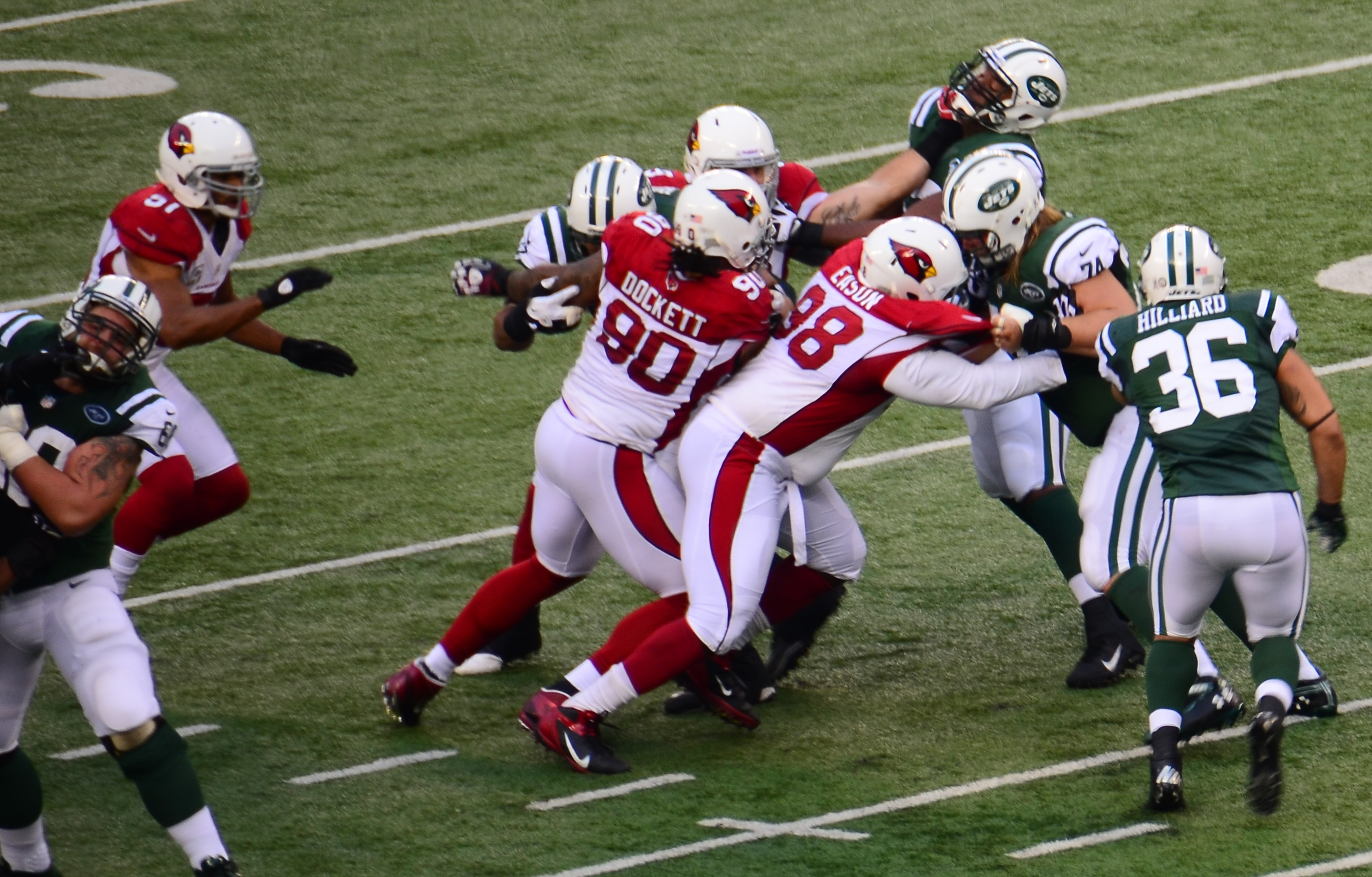 Battle on the line of scrimmage, between Jets offensive line and Cardinals defensive line (2012).